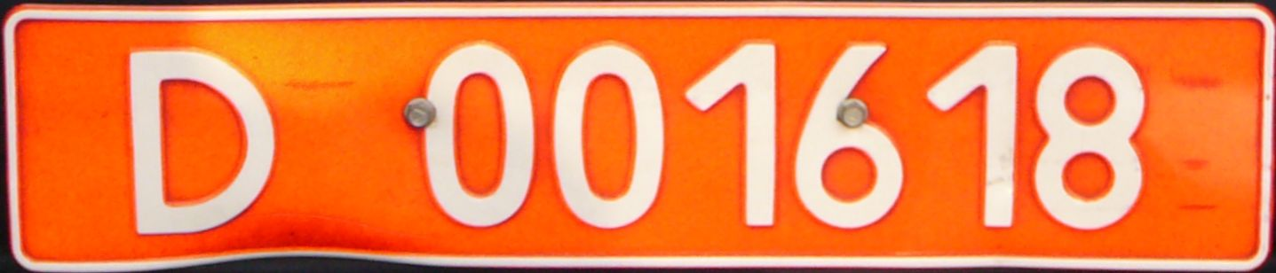 Diplomatic license plate from Kazakhstan